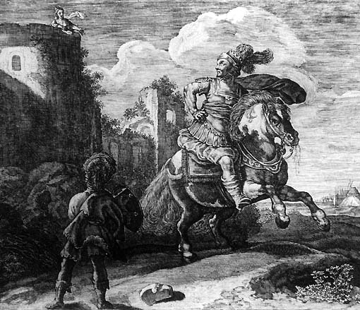 Minos & Scylla, 17th century etching